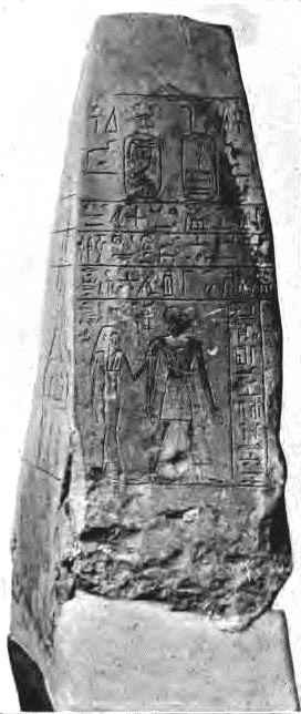 Truncated, pyramid-shaped stele for the temple-scribe Sobekhotep, son of the temple-scribe Sobeknakht. Sobekhotep is depicted with his wife, Auethab. The cartouches of the pharaoh Sekhemre-shedtawy Sobekemsaf are visible on the top. Limestone, 17th dynasty. British Museum 280 (registr. no. 1163).